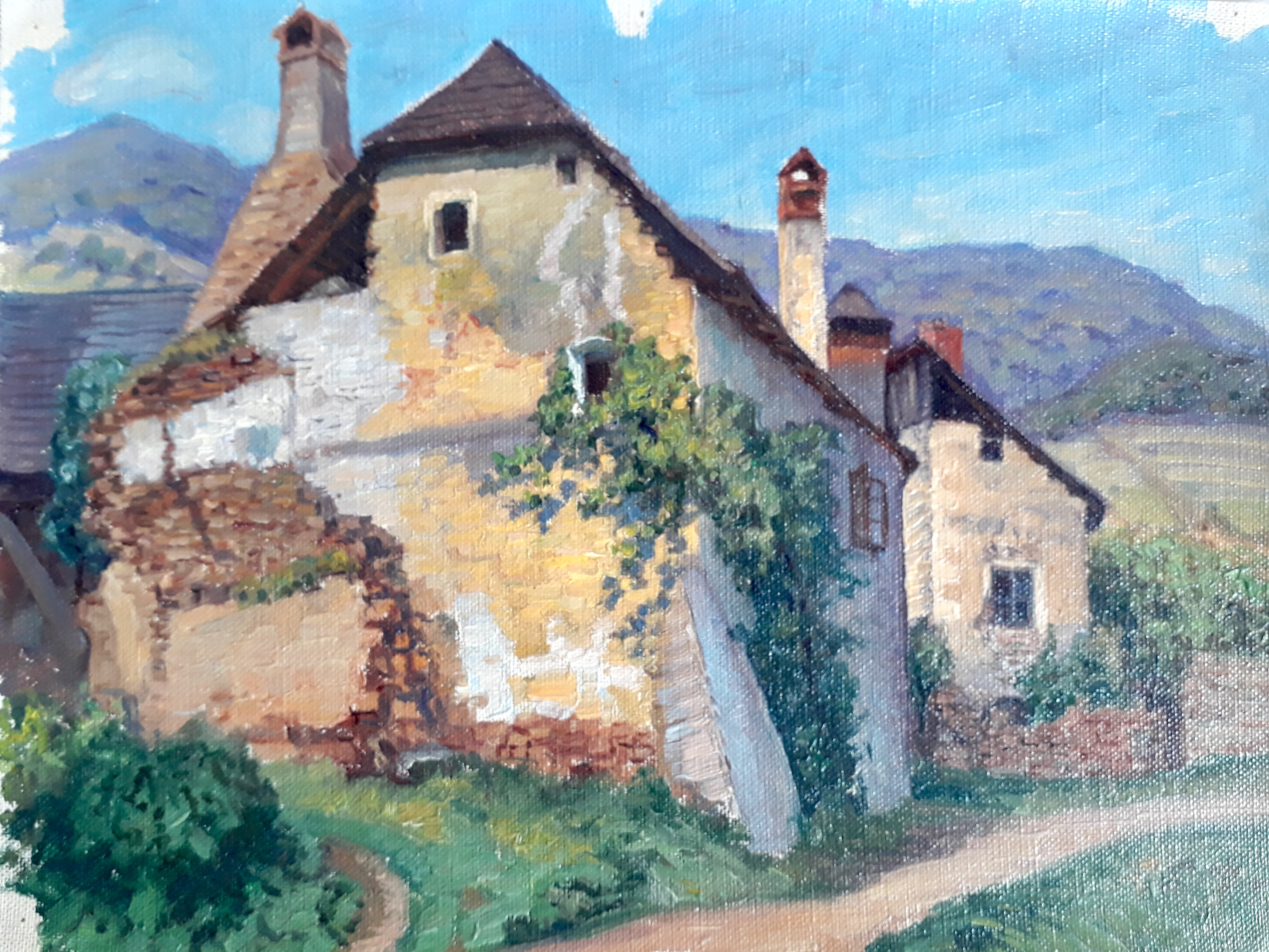 Karl Camillo Schneider - Landschaft Wachau 2, Öl auf Leinwand, ca. 32 x 24 cm.